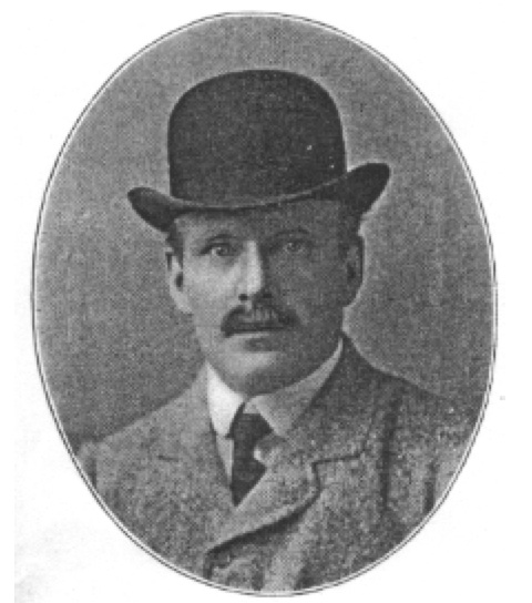 January 1919 photograph of George Llewellen Palmer, from the Wiltshire Times and Chippenham Advertiser